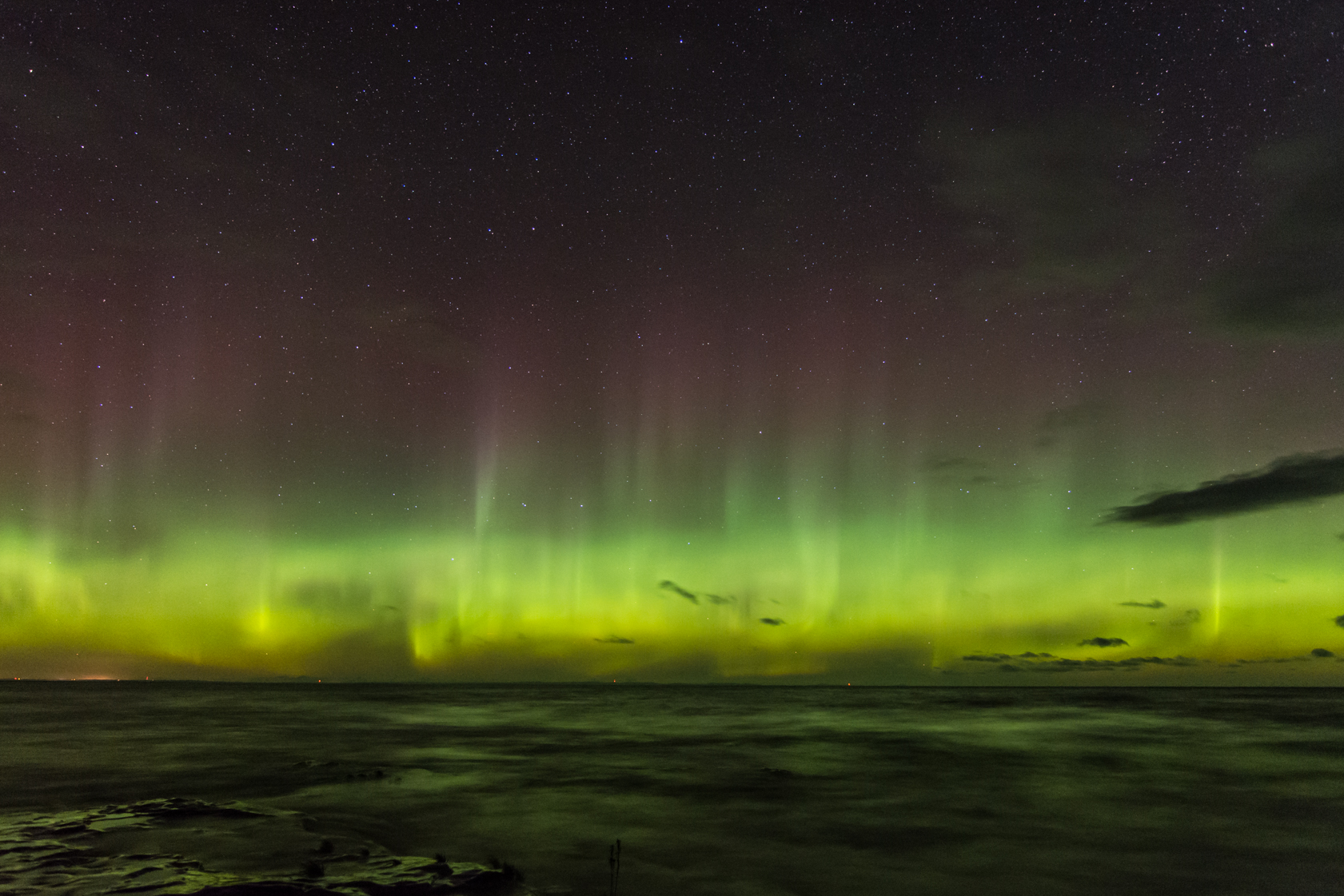 Aurora Borealis viewed from the southern shore of Lake Superior.